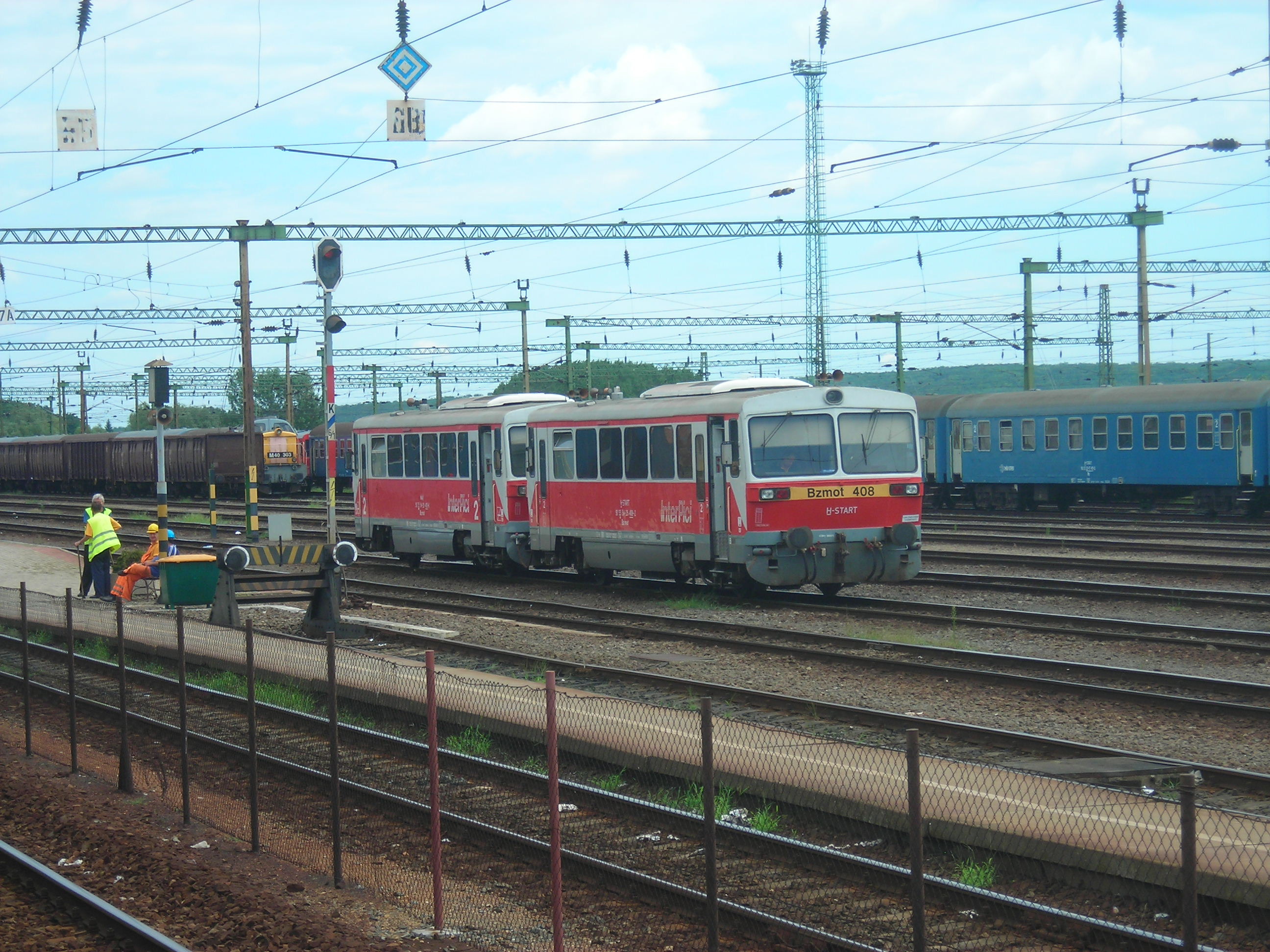 Dombóvár railway station in 25 July 2009